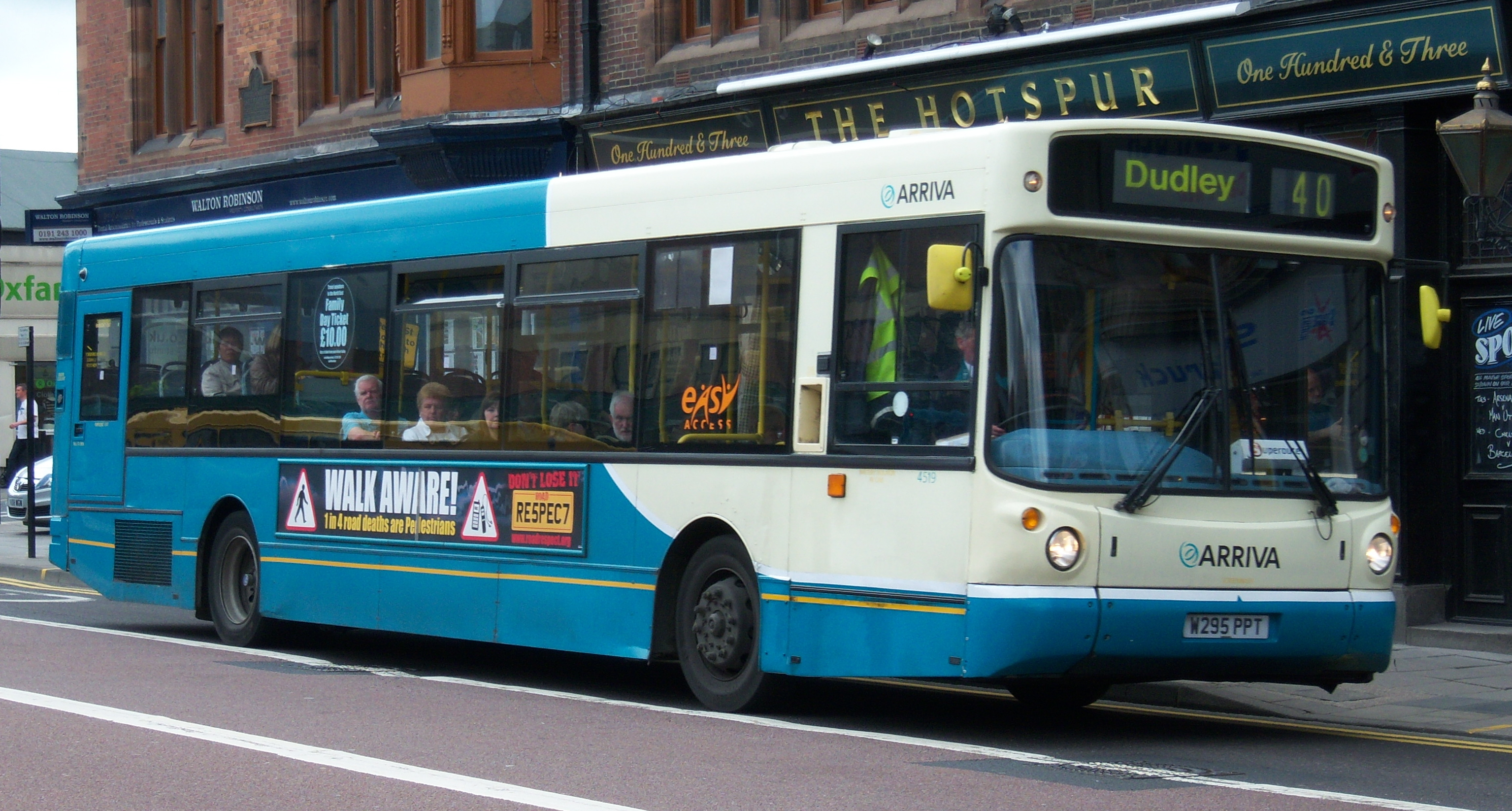 Arriva North East 4519 (W295 PPT), a Volvo B10BLE/Alexander ALX300 bus, in Newcastle upon Tyne, on route 40 to Dudley.